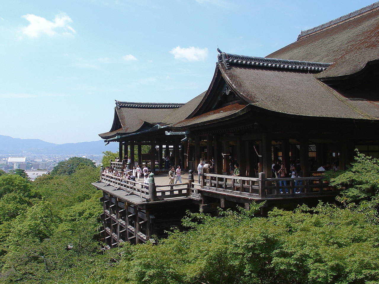 Kiyomizu Temple.(Higashiyama Ward, Kyoto City, Kyoto Prefecture, Japan)